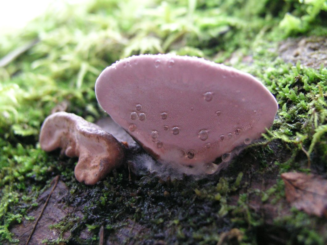 Old spruce forest indicator species